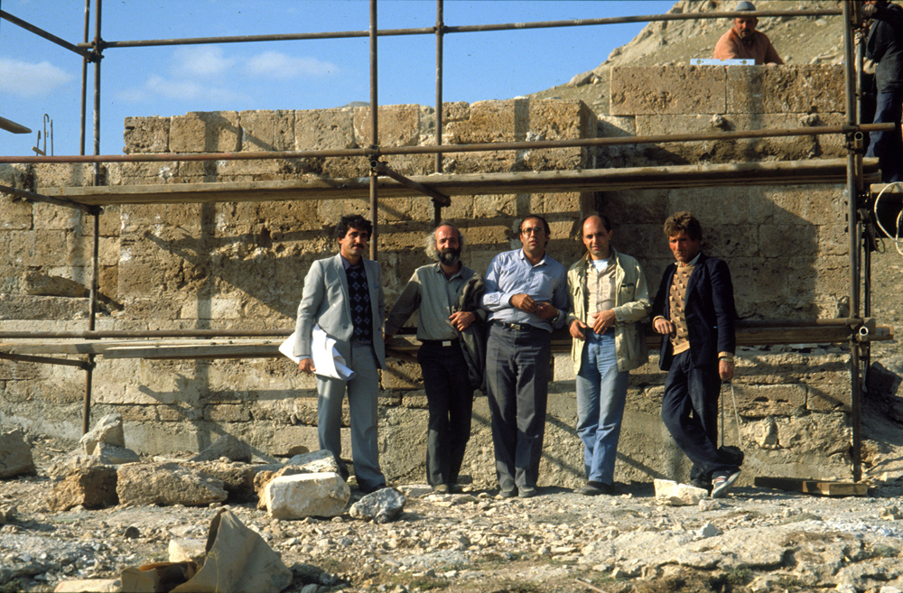 Ծործորի վանքի տեղափոխման աշխատանքների մասնակիցները, Արմեն Հախնազարյանը աջից երկրորդը